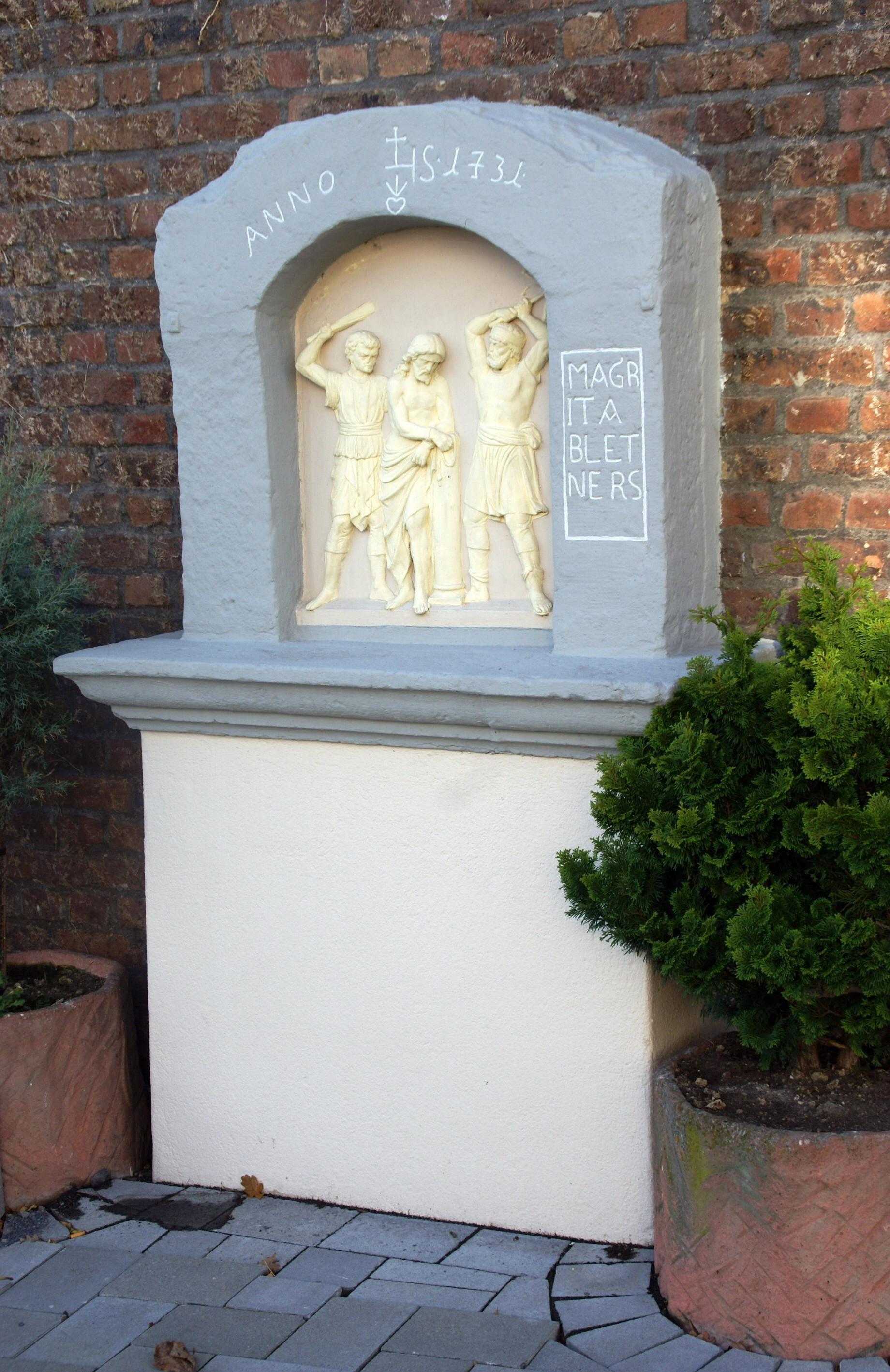 Wayside shrine in Altendorf, at the corner of Burgstraße and Ahrstraße